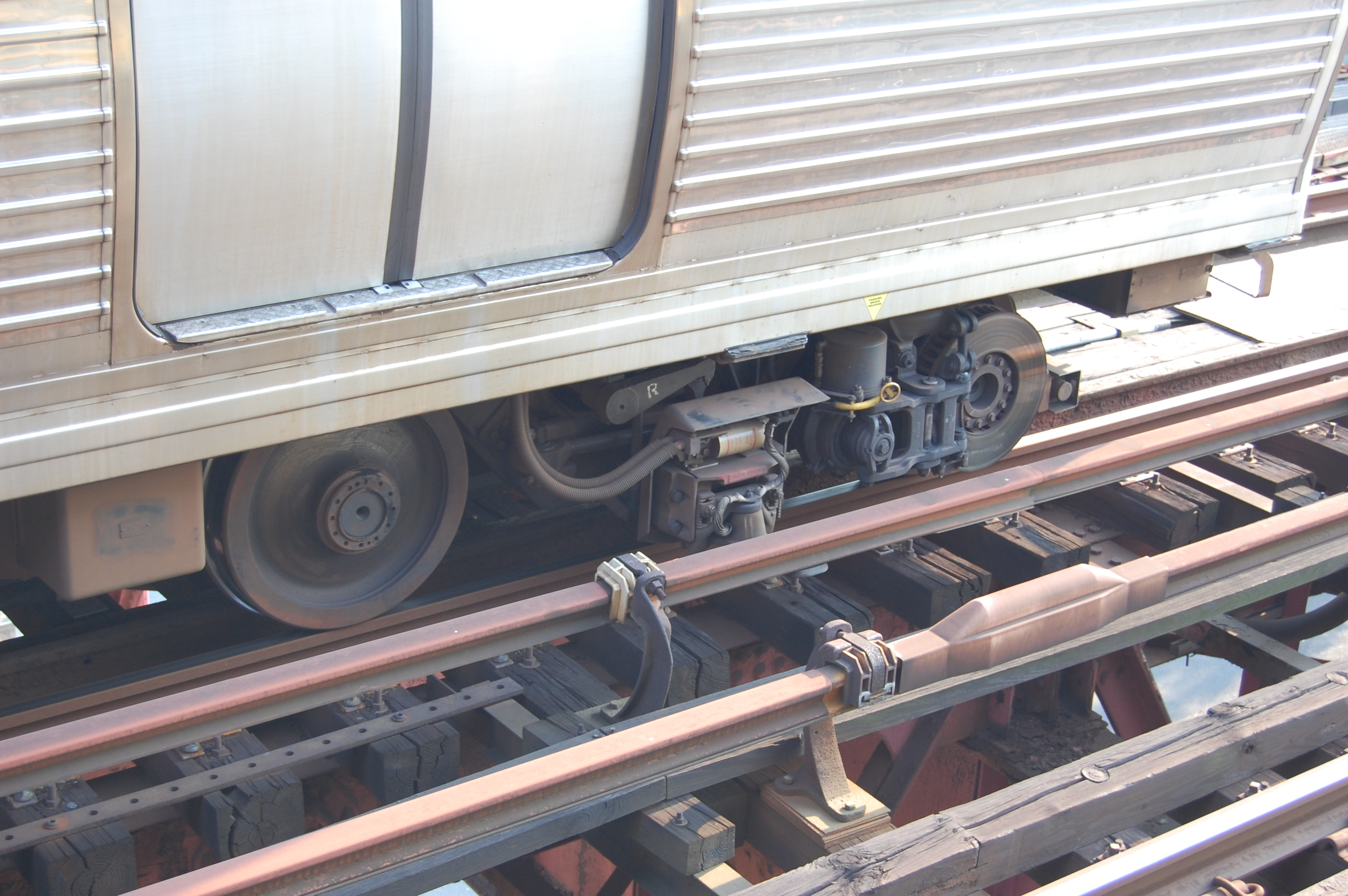 MFL line train truck bogie with 3rd rail contact on 3rd rail